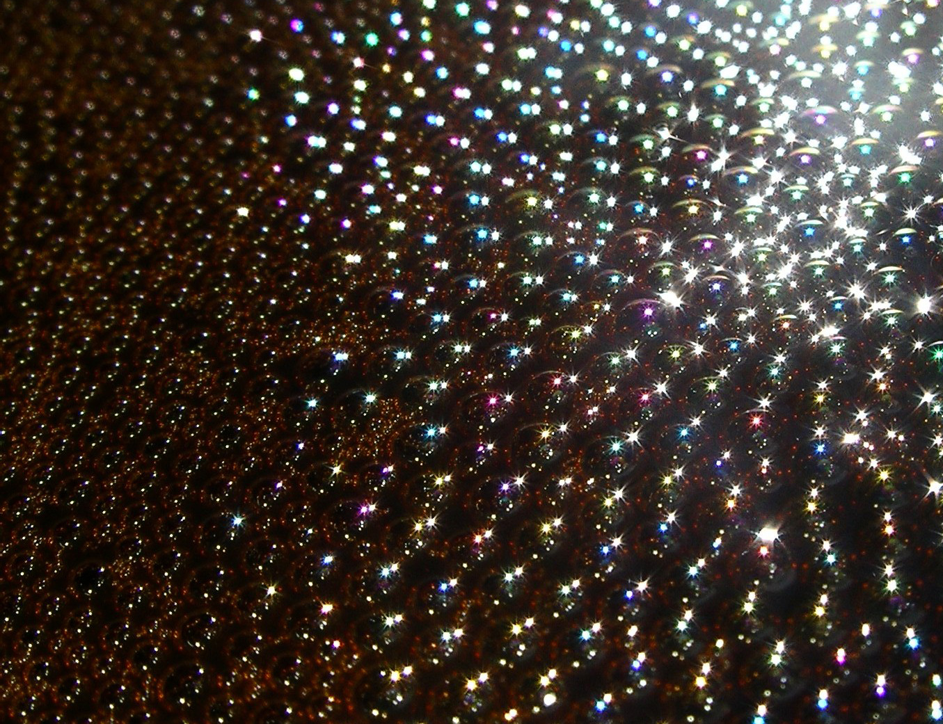 oil bubbles, used motor oil